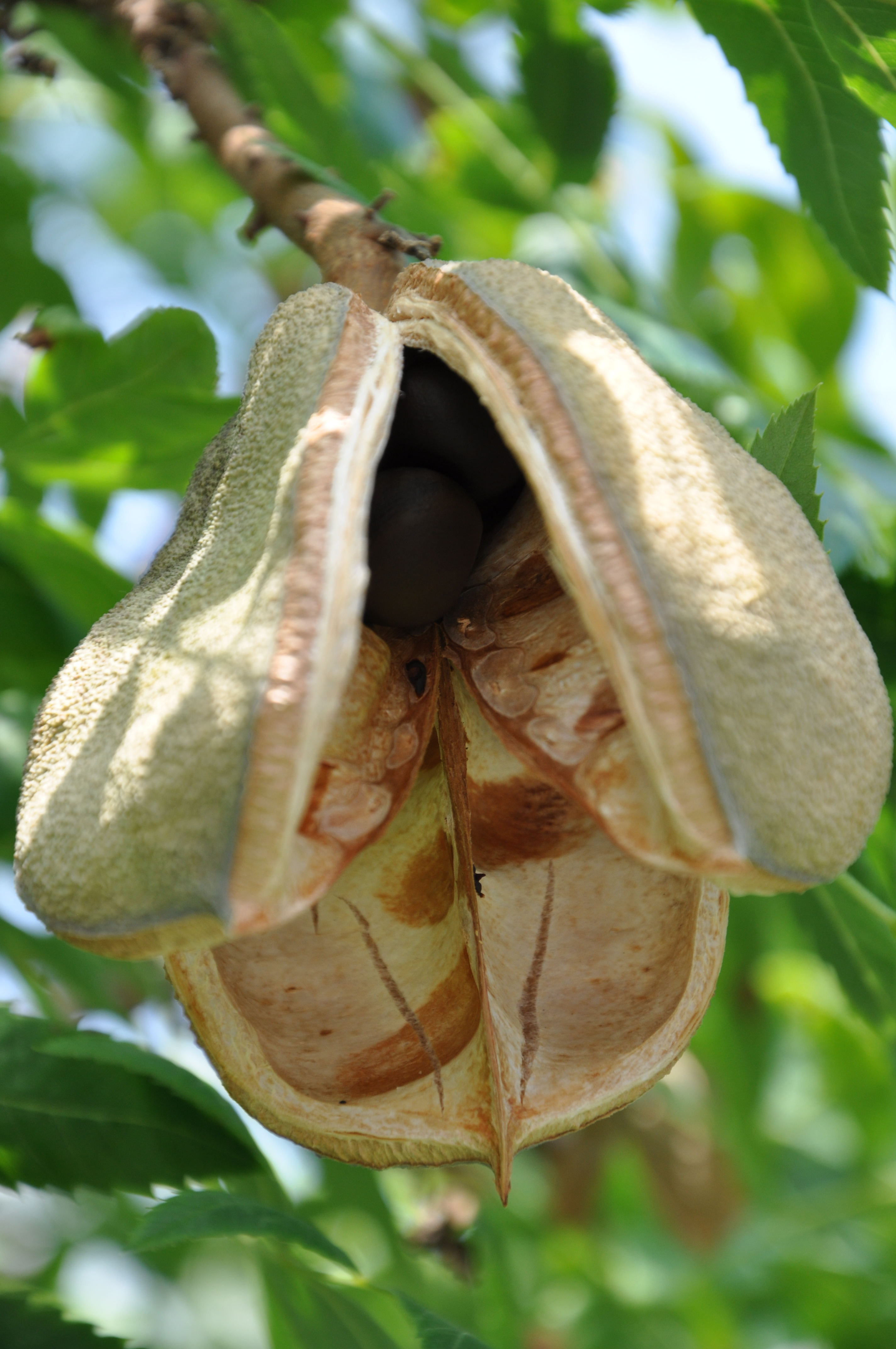 Yellowhorn. Botanischer Garten Bern, Switzerland.